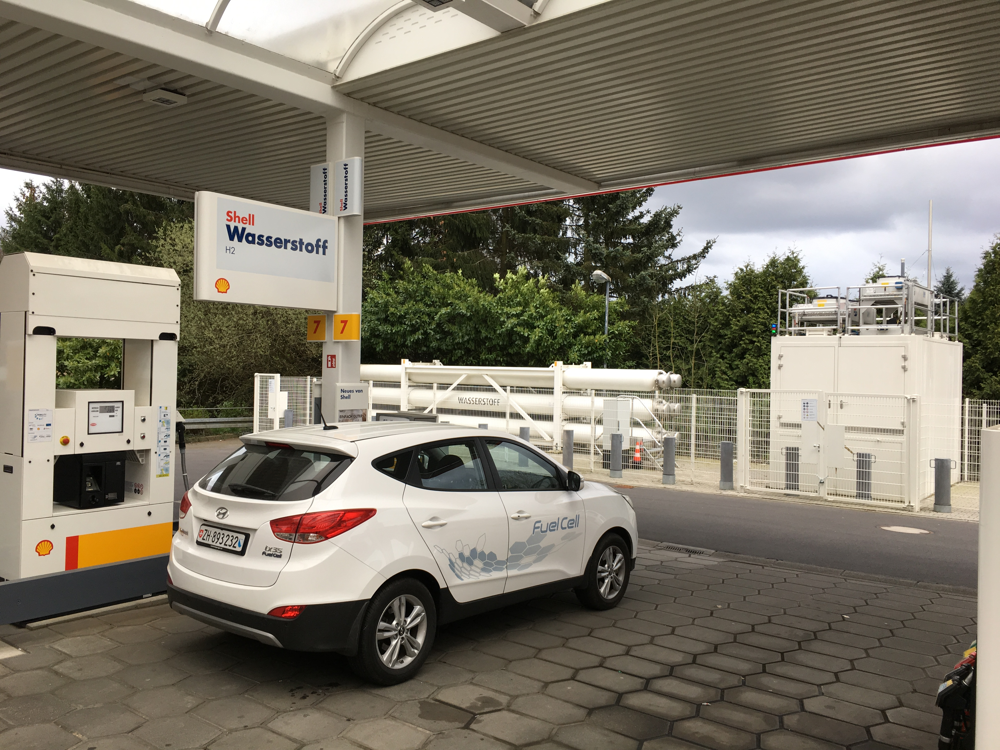 Hyundai ix35 Fuel Cell electric vehicle at Hydrogen Gas Station at Shell, Schmiestrasse, Wuppertal.